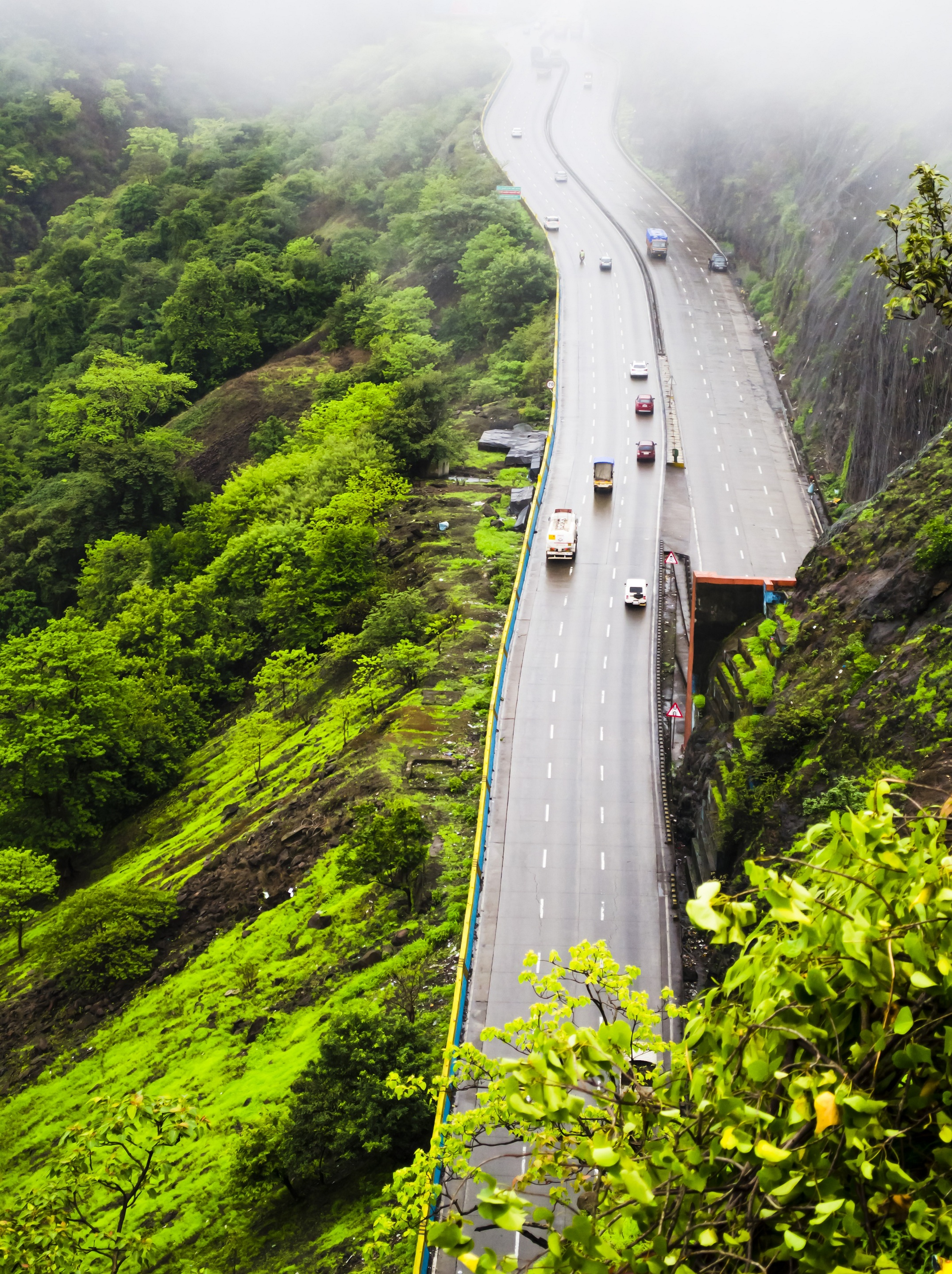 In rainy season from Rajmachi Garden, Khandala